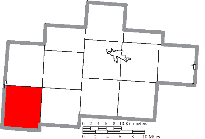 Map of the municipal and township boundaries of Hocking County, Ohio, United States, as of the 2000 census, with the location of Salt Creek Township highlighted. Township borders are shown only in unincorporated areas in order to differentiate incorporated and unincorporated areas more clearly.